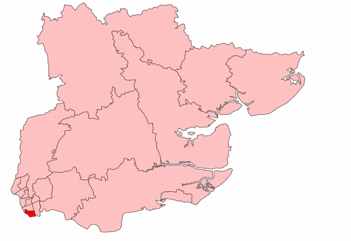 A map of Silvertown constituency within Essex, as it existed from 1918 to 1950.